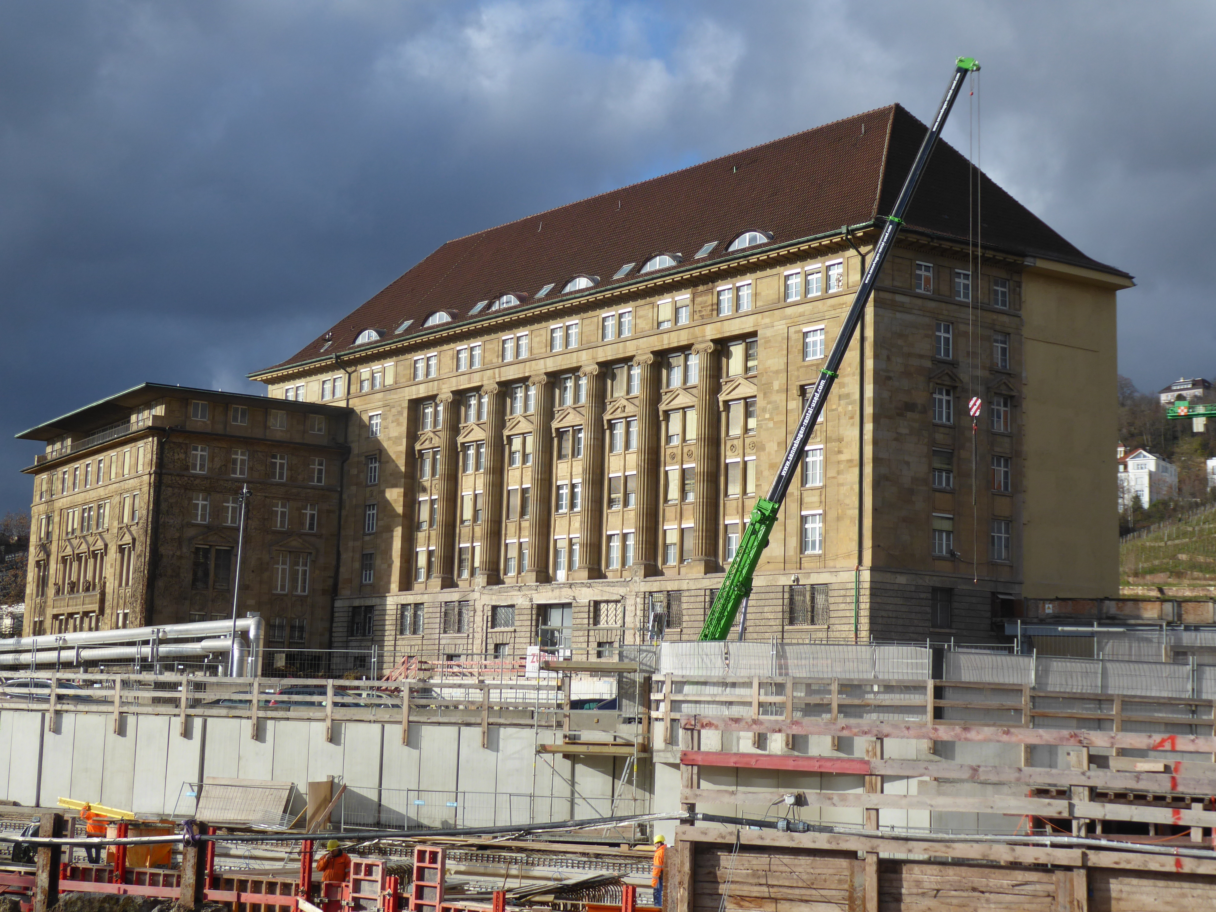 Railway-direction-building after demolition of three aisles, 2017